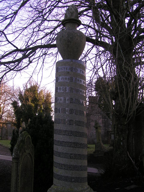 Wishart memorial This memorial to George Wishart, one of the first protestant martyrs stands in Auchenblae kirkyard. The text spiralling around the column reads "This monument is erected to the memory of one of Scotland's first and most illustrious martyrs George Wishart, of Pittarrow in this Parish and as a testimony of gratitude to the great head of the church for the work of the reformation on behalf of which his servant suffered. He was born in 1513 and was burned at St. Andrews on 1st March 1546. The righteous shall be in everlasting remembrance"